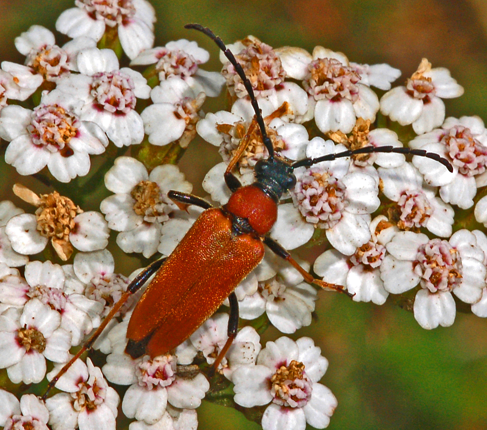 Stictoleptura rubra, female